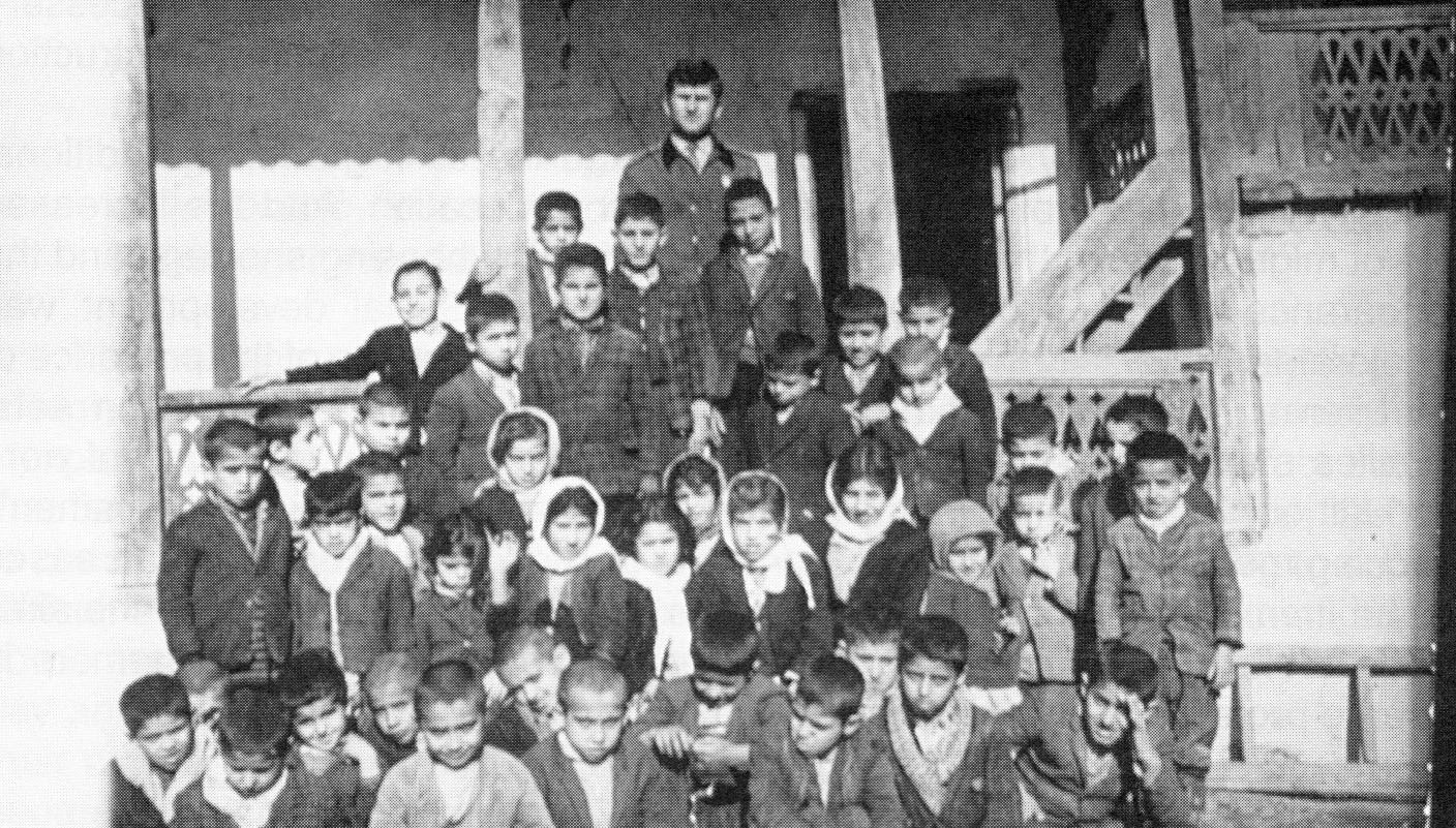 Literacy Corps elementary school in one of the villages of Iran